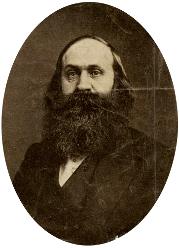 Sherman Booth (September 12, 1812 – August 10, 1904)